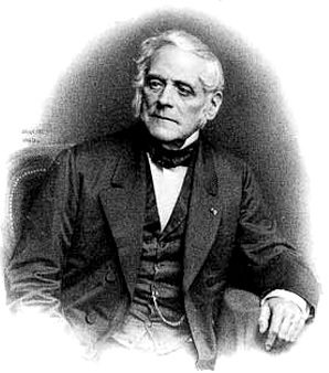 Daniel Auber (1782-1871), French composer